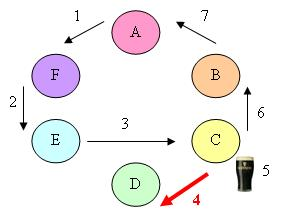 A pictorical description of a game of 21